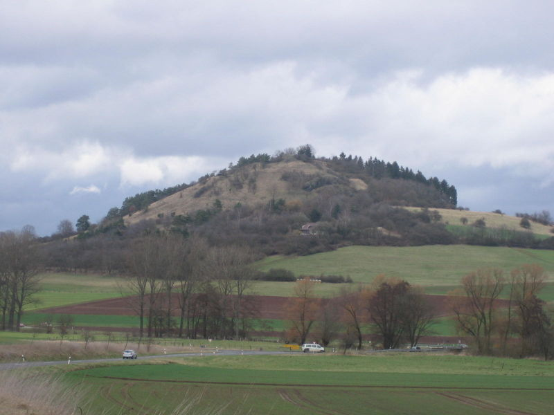 found on german wiki as bild:Wartberg_bei_Kirchberg.jpg The photographer, Armin Schönewolf, there states that he permits free use of the image.